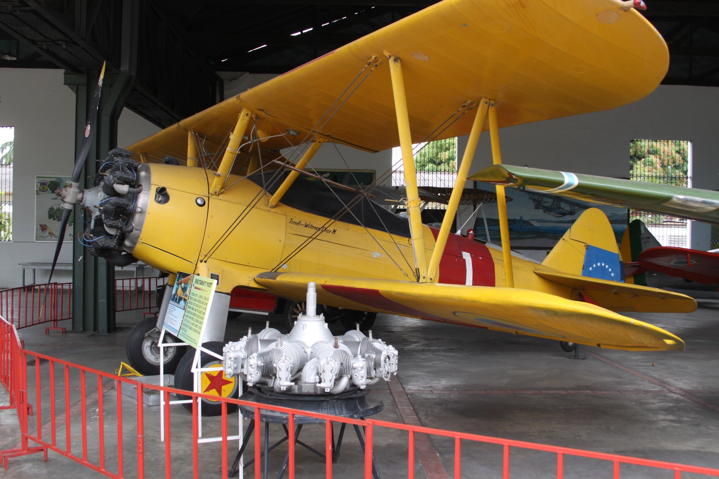 At Museo Aeronáutico de Maracay